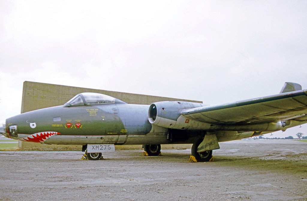 English Electric Canberra B(I)8 XM275 of No. 16 Squadron RAF at RAF Wattisham in 1972